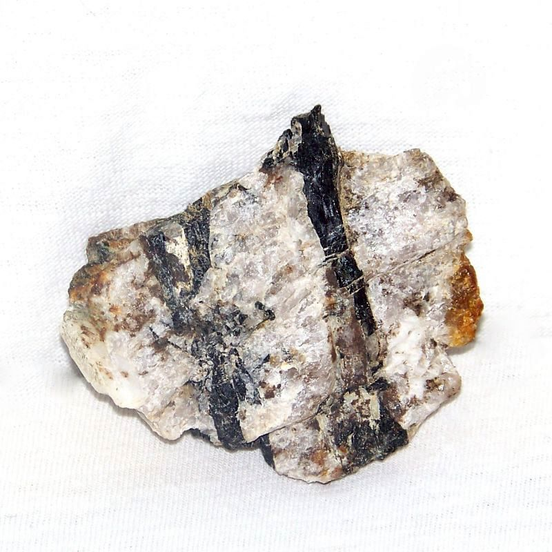 Black tourmaline - schorl from Owl Montains, Lower Silesia, Poland. 5 x 0,5 cm